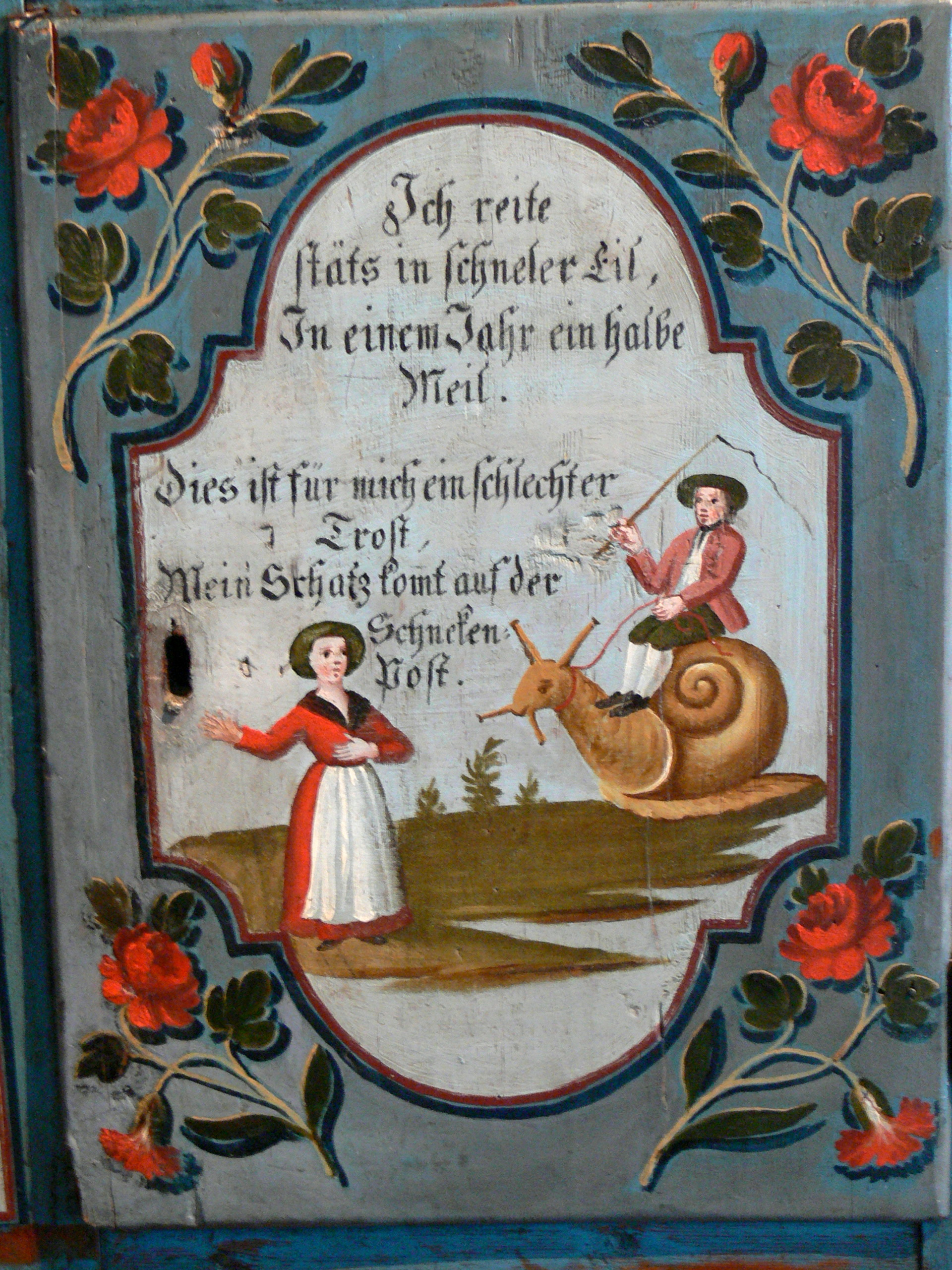 Trautenfels castle ( Styria ). Museum: Naive painting on a farmer´s wardrobe showing lover hurrying to his girl using the snail´s post.